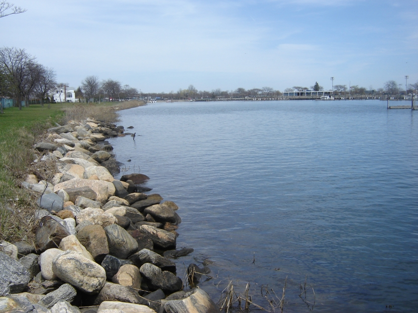 Wantagh Park Marina in Wantagh, New York. Note the empty docks, photo was taken in early spring.